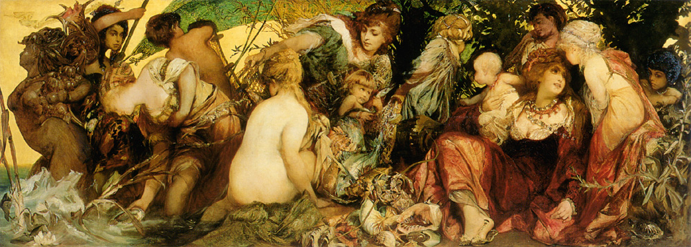 Abundantia the gifts of the sea